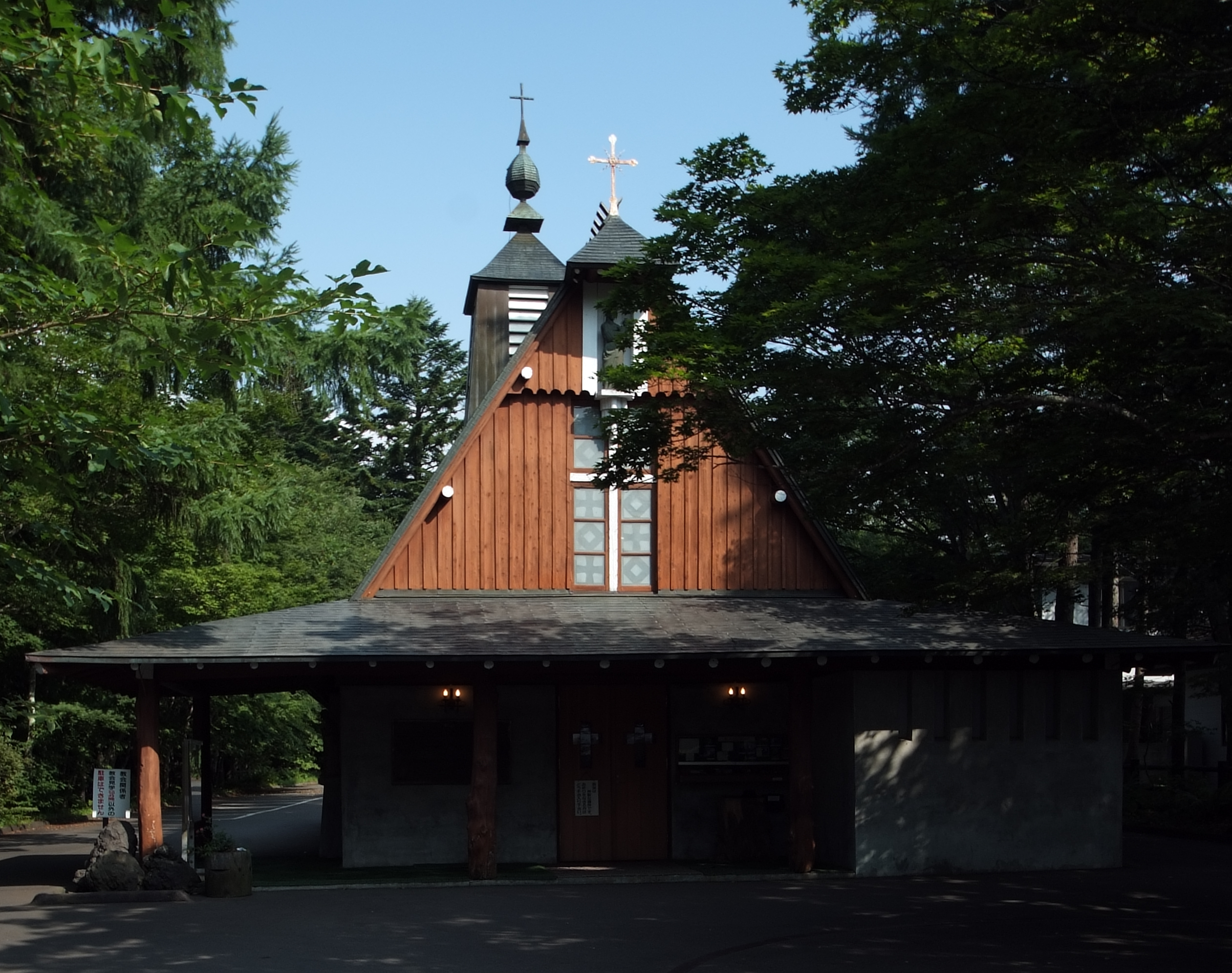 St. Paul's Catholic Church. Karuizawa, Nagano, Japan. designed by Antonin Raymond in 1935.